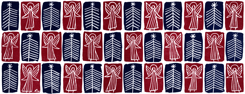 Jacques Hnizdovsky Christmas Card